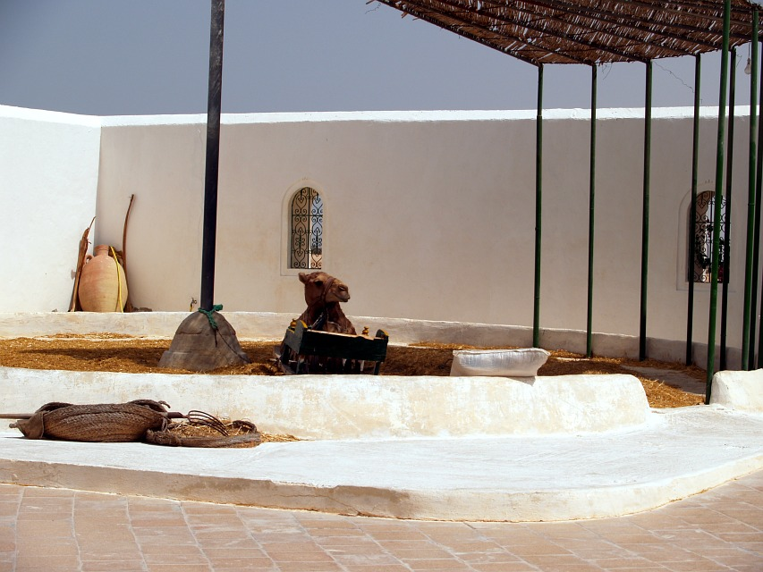 Guellala Museum - threshing floor